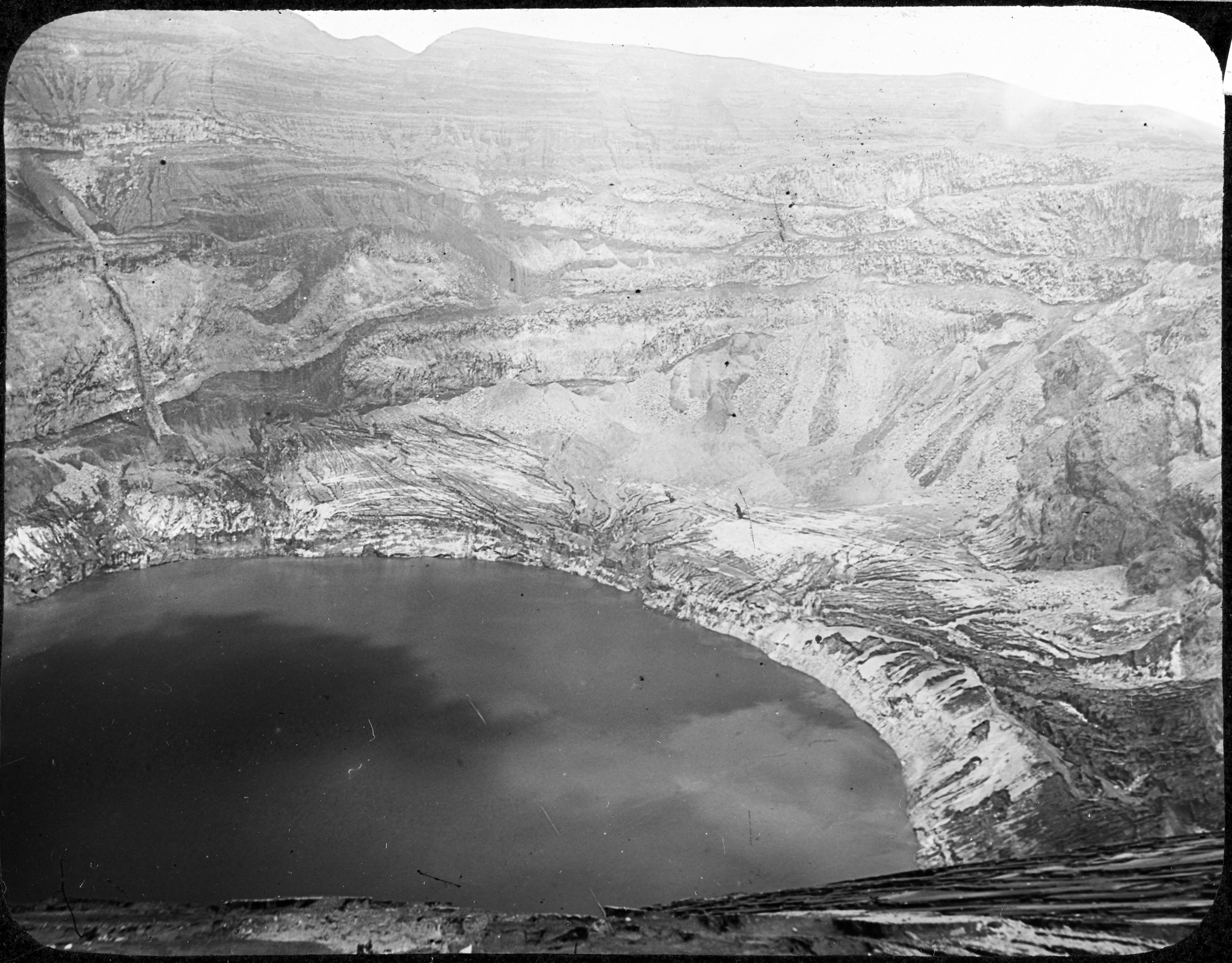 View of volcano crater lake.